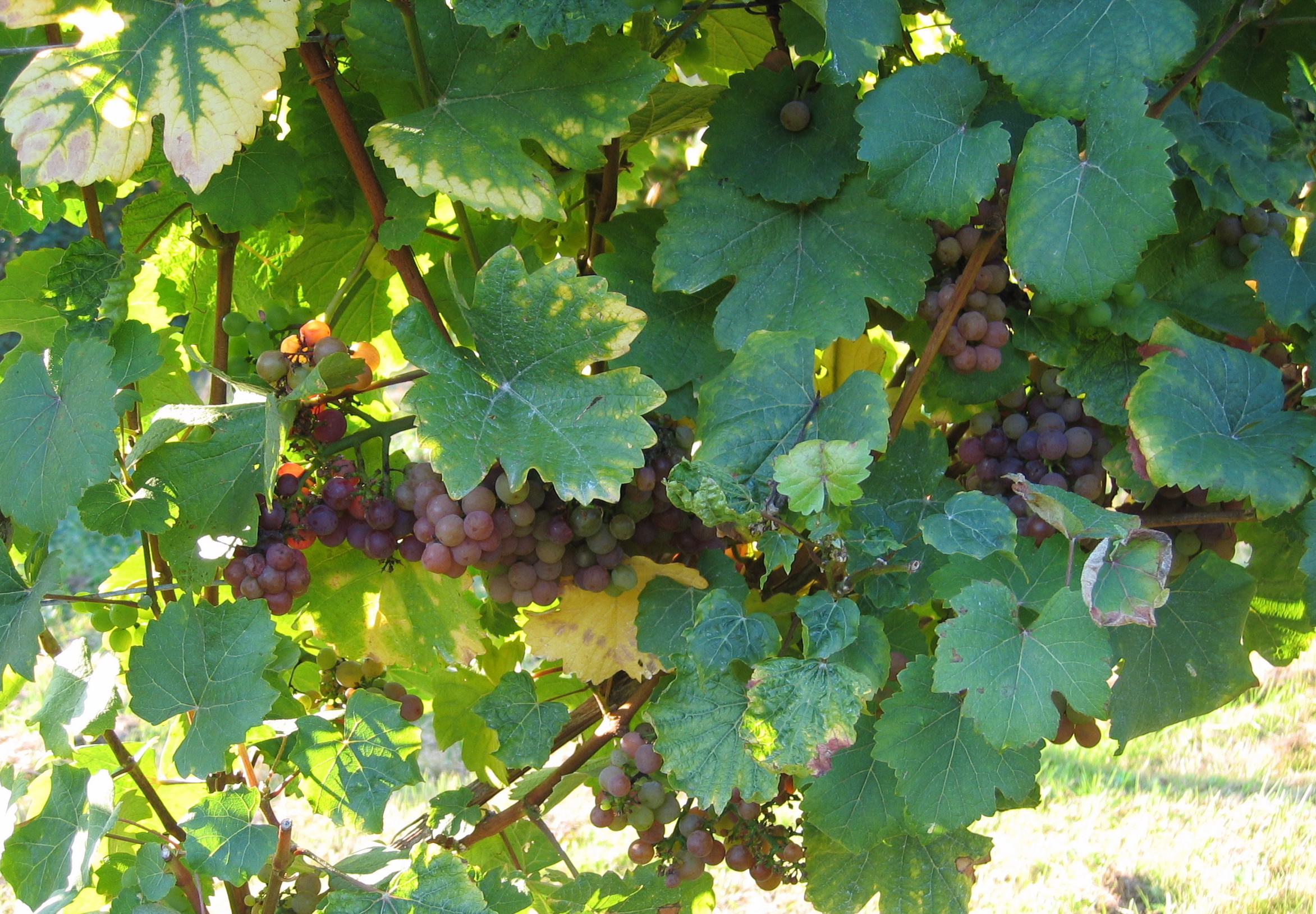 Roter Traminer, or Traminer/Gewürztraminer, grown for varietal display purposes next to Kloster Eberbach, Rheingau, Germany